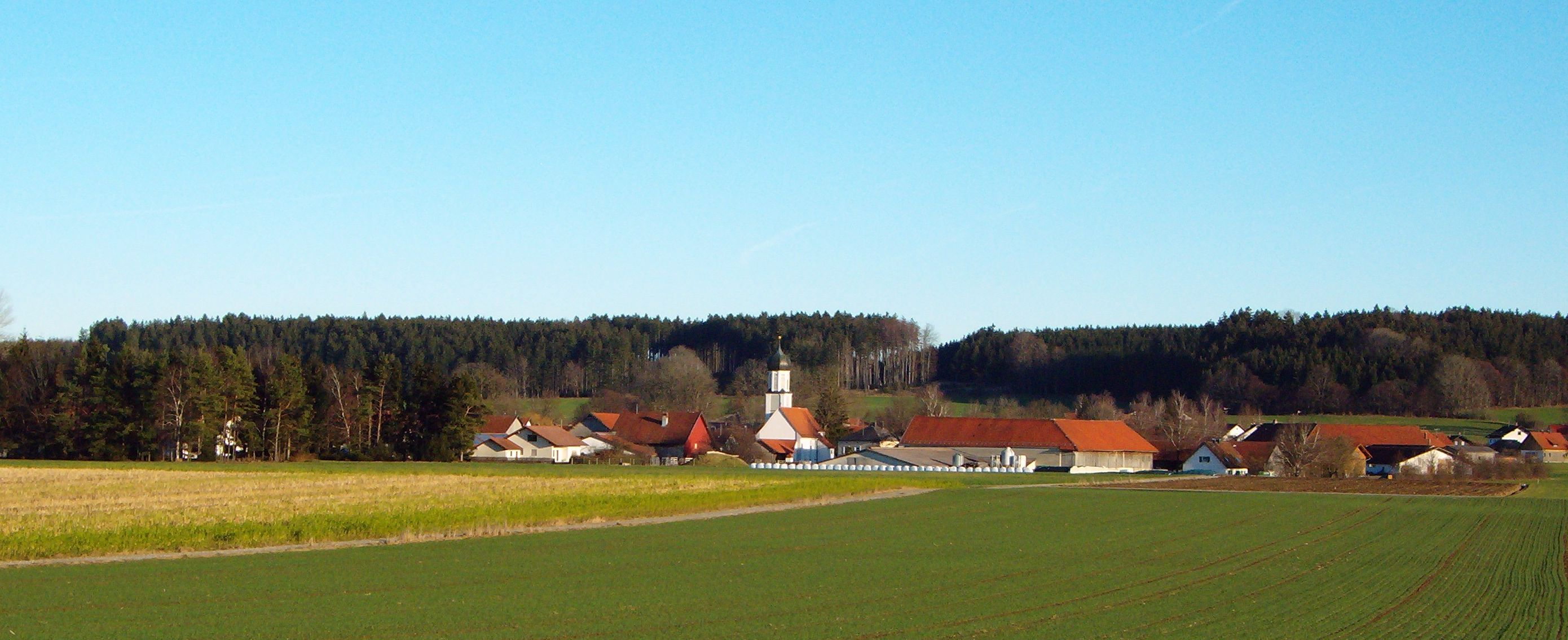 View of Lengenfeld, City of Oberostendorf, Bavaria